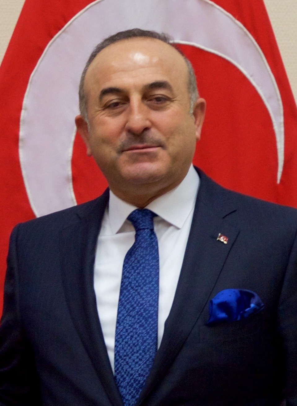 Çavuşoğlu with Kerry